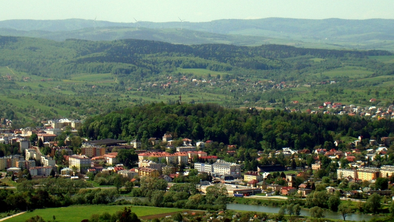 Parkberg bzw. Wachhügeln (pl: Stróżnia) in Sanok